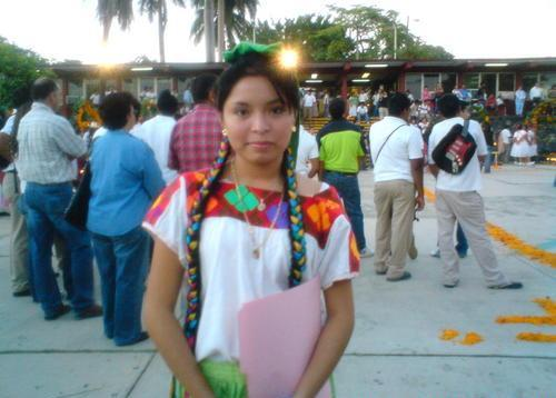 Clothing of Chicontepec